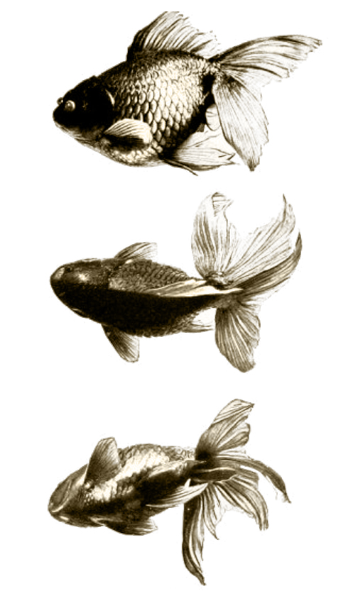 Animal - Fish - Varieties of Goldfish - Oranda-shishigashira